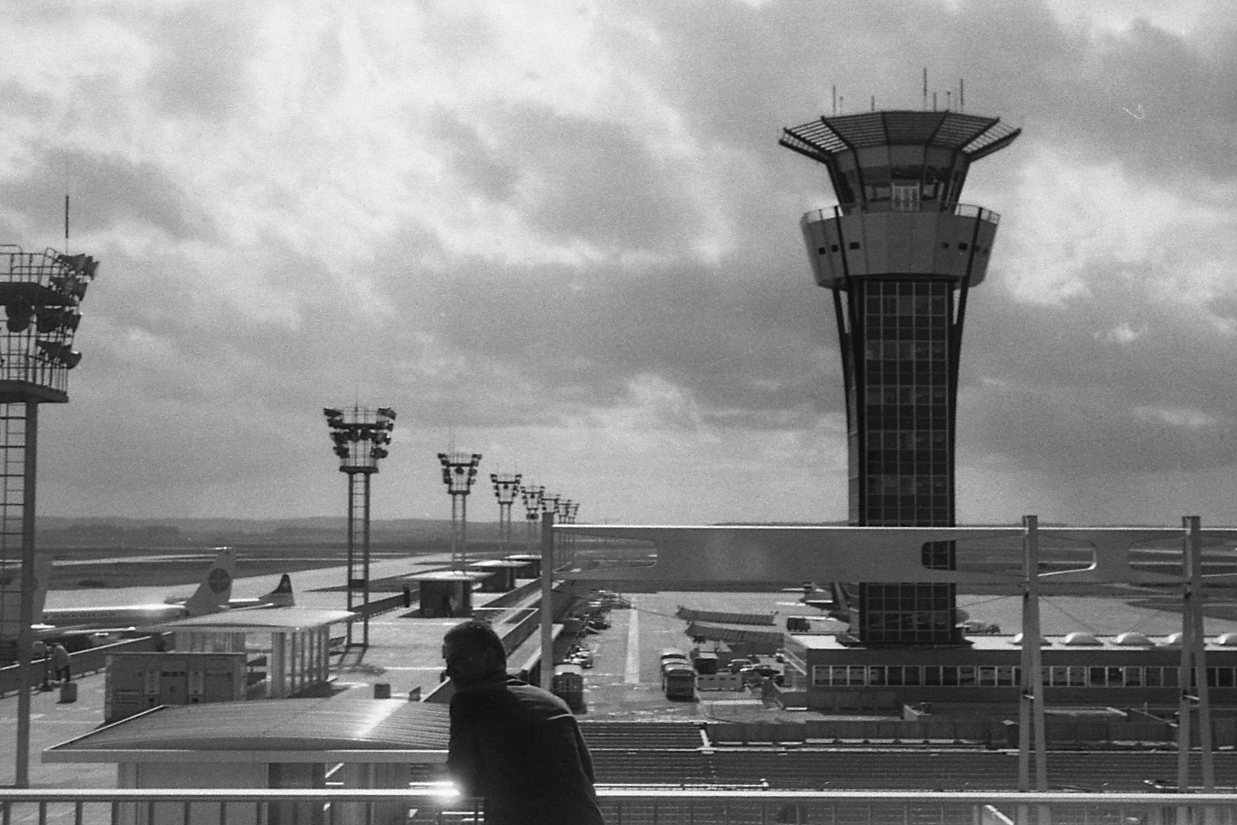 Orly Airport